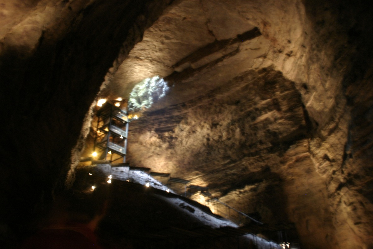 The "Cathedral Room" at Marvel Cave in Silver Dollar City - Branson, MO